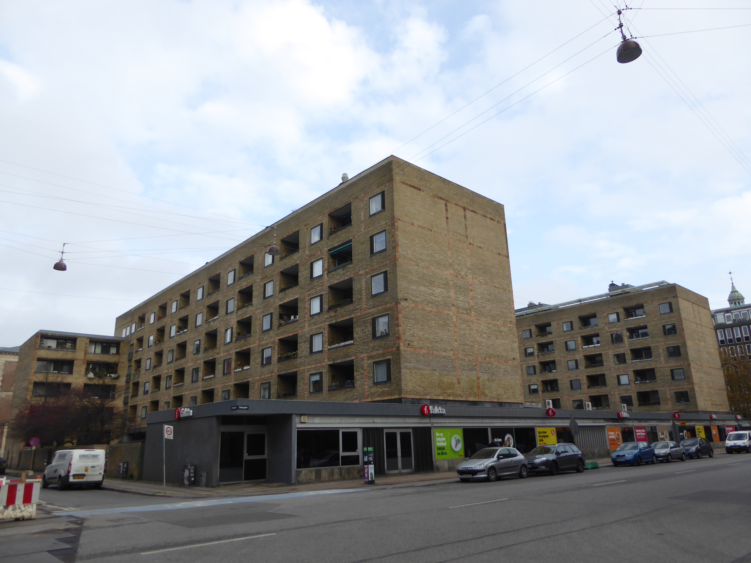 The apartment building Borgergården at the corner of Adelgade and Sølvgade in Indre By in Copenhagen.